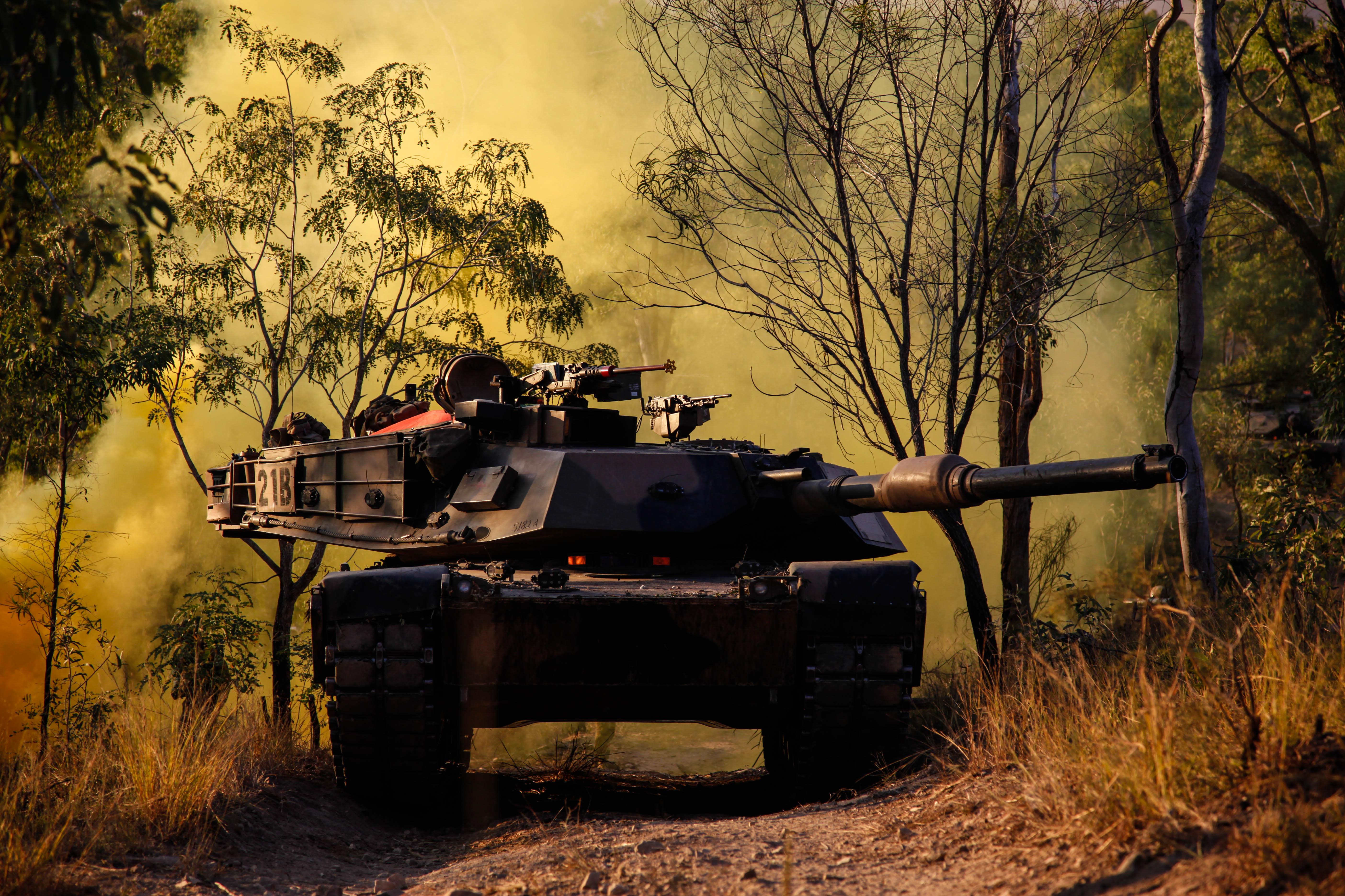 Australian Soldiers return fire in a M1A1 Abrams tank during exercise Hamel 15 a sub-mission of exercise Talisman Sabre in Shoalwater Bay Training Area, Queensland, Australia, July 14, 2015. Talisman Sabre is a biennial exercise that provides an invaluable opportunity for nearly 30,000 U.S. and Australian defense forces to conduct operations in a combined joint and interagency environment that will increase both countries' ability to plan and execute a full range of operations from combat missions to humanitarian assistance efforts. (U.S. Army photo by Spc. Jordan Talbot/Released)